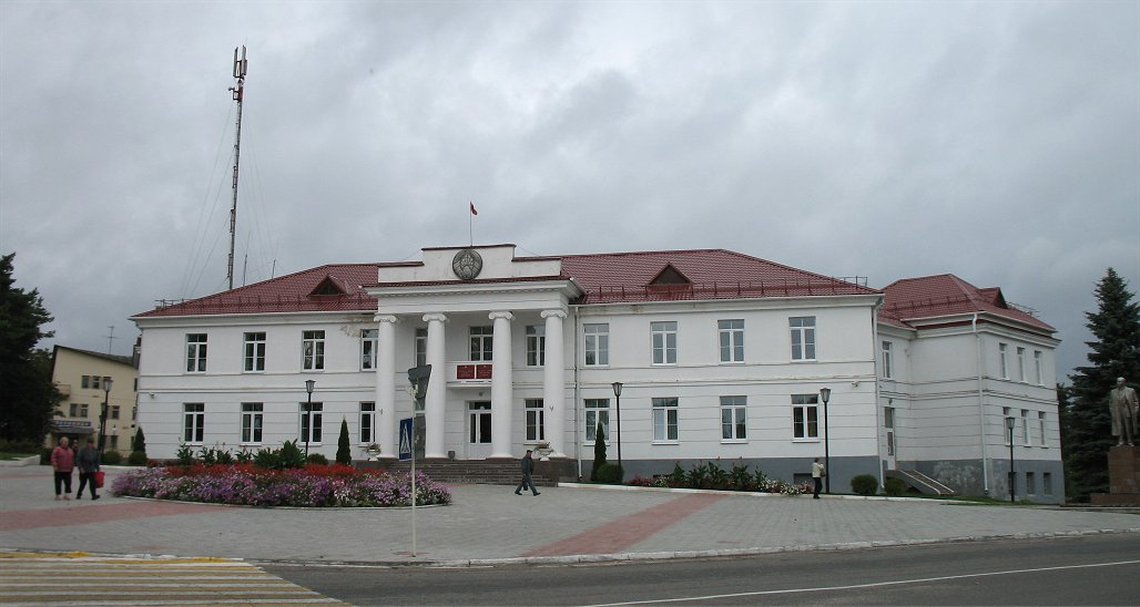 Administration building of Braslau district (Браслаў, Браслав, Braslav, Braslava, Breslauja), western part of Vit(s)ebsk region (province), Belarus.